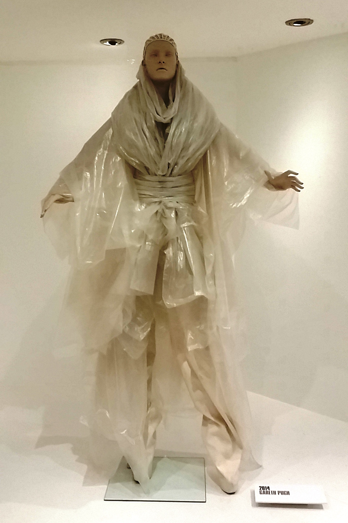 'Look 41' ensemble in plastic sheeting and calico.